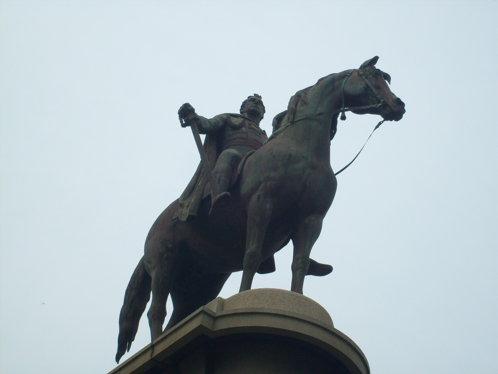 Statue of Thomas Munro, 1st Baronet in The Island, Chennai